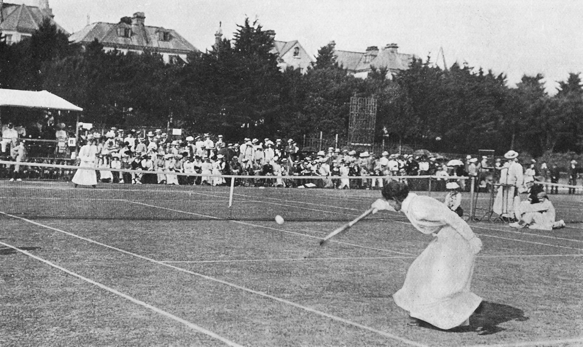 Original description: "Ladies' Final at Eastbourne: Mrs. Hillyard v. Mrs. Sterry." Depicted persons: Blanche Bingley-Hillyard (1863-1946), English tennis player Charlotte Cooper-Sterry (1870-1966), English tennis player